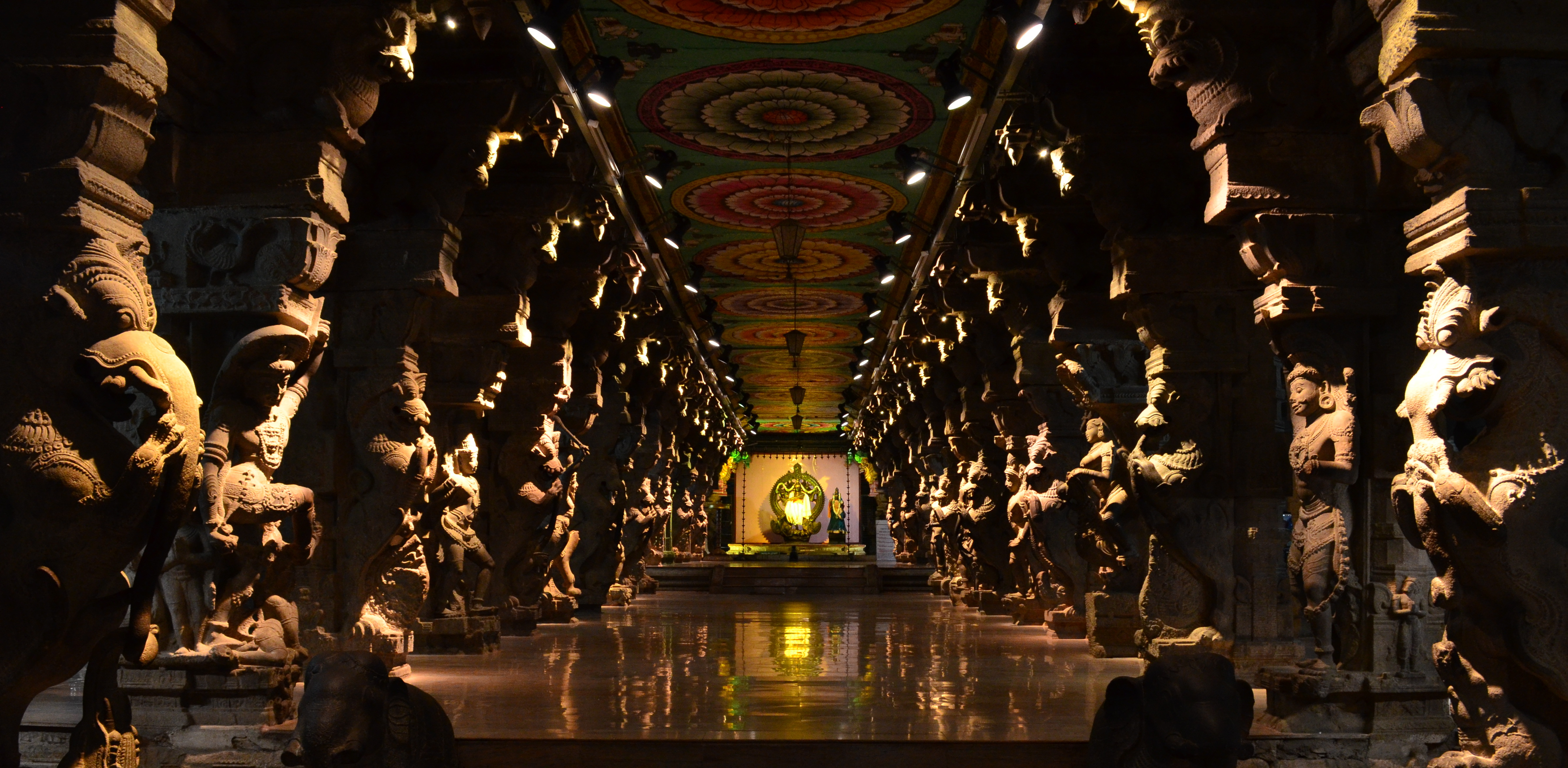 Madurai Meenakshi Amman Temple